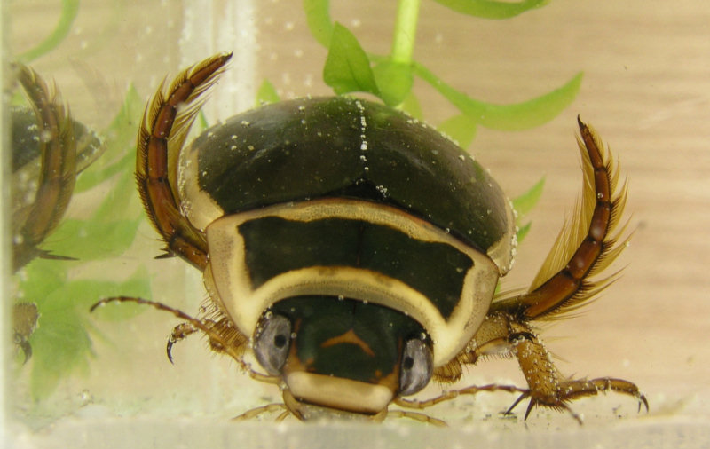 Great diving beetle, male, photo 28-10-2004 by E van Herk, placed in the public domain. Camera: Olympus C-5050 Zoom, photographed in cuvette and with light source of my own design. The beetle was found in a slit on the hood of a black shiny car - it probably thought it was landing on water.